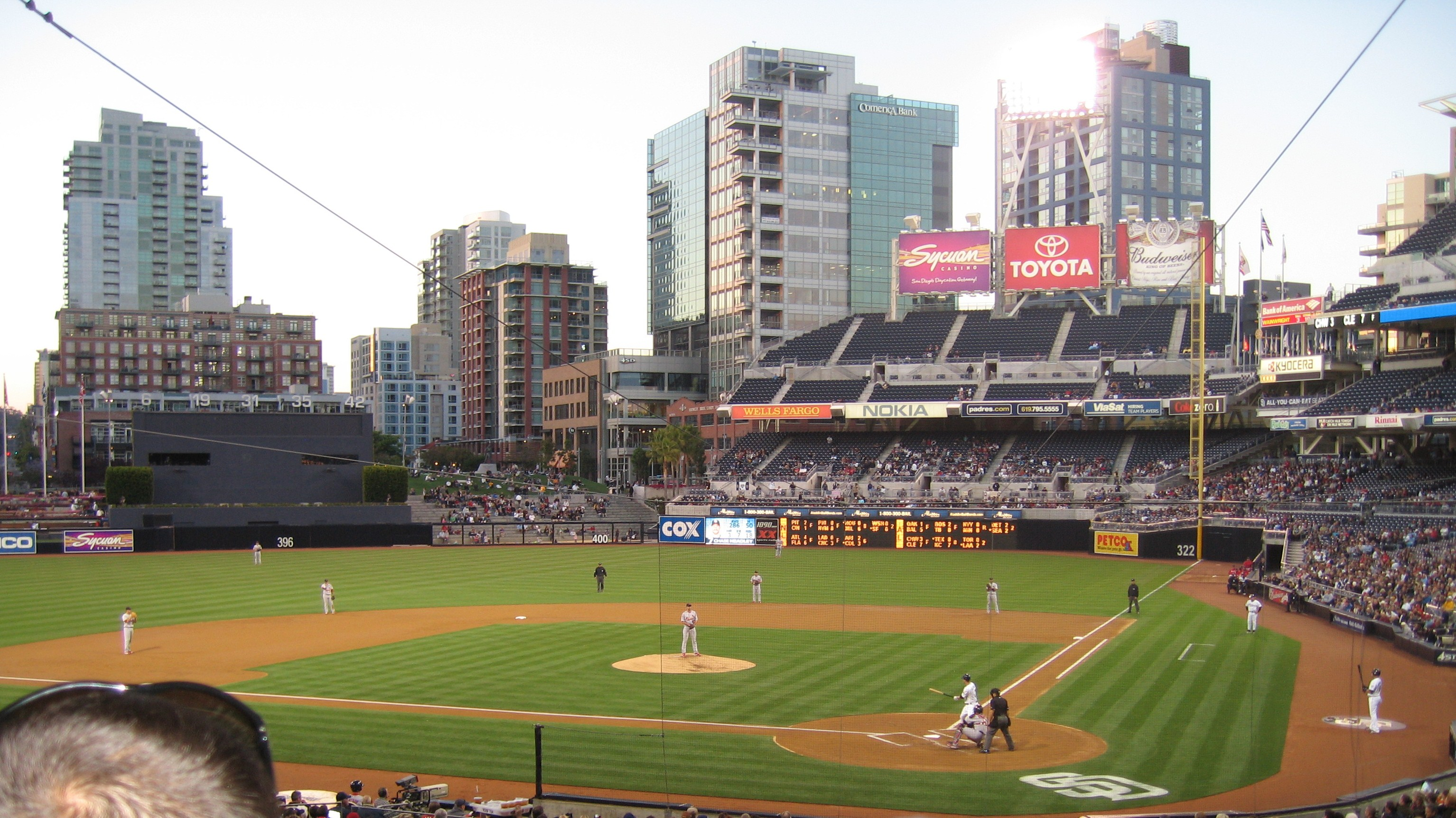 St. Louis Cardinals at San Diego Padres, PETCO Park, May 25, 2010.